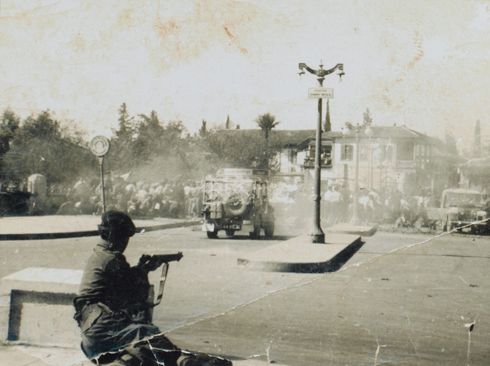 British soldiers fighting against a street riot by EOKA in Nicosia, Cyprus, 1956.